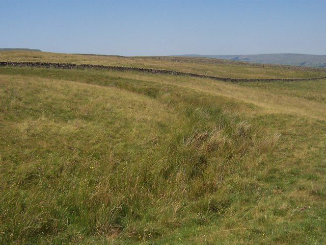 Castle Dykes Henge. In a corner of a forgotten field reverting to moorland is the distinctive outline of Castle Dykes Henge. The earthwork and ditch are a symmetrical "O" shape. I stumbled on this by accident, and I should think it is rarely visited except by sheep